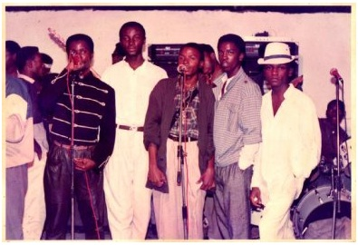 Wenge Musica 1987, Werrason & JB Mpiana